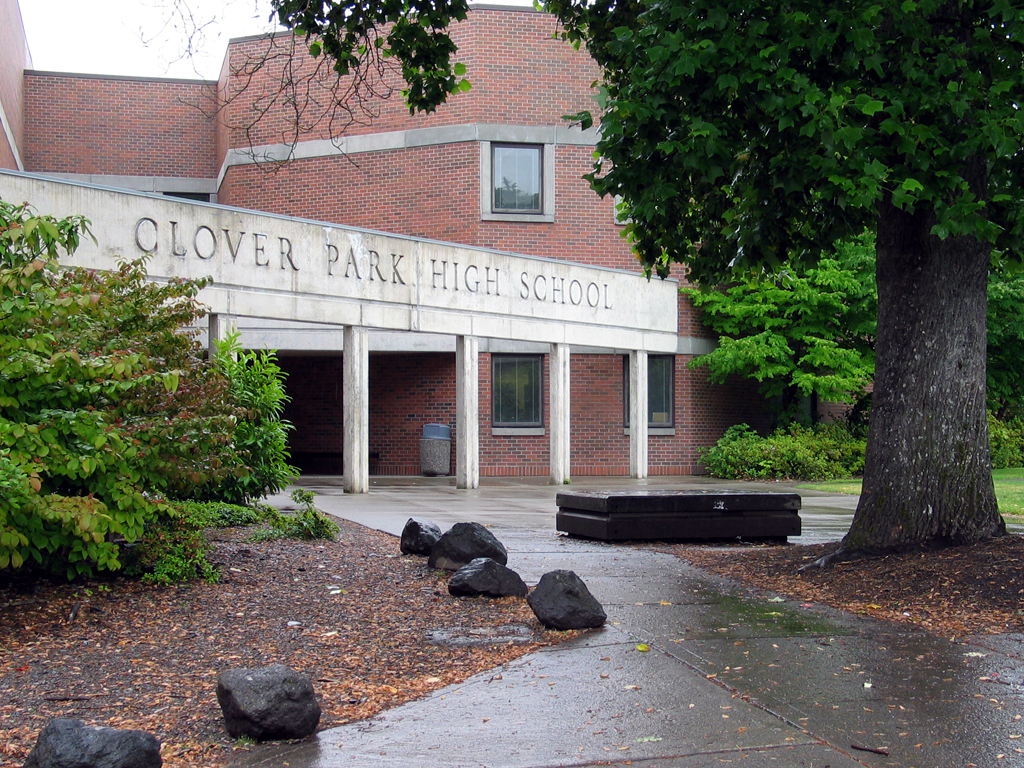 Clover Park High School building entrance. Photograph taken by Bahn Mi of the Schoolwatch Programme and released freely under the Creative Commons Attribution ShareAlike 2.0 license.